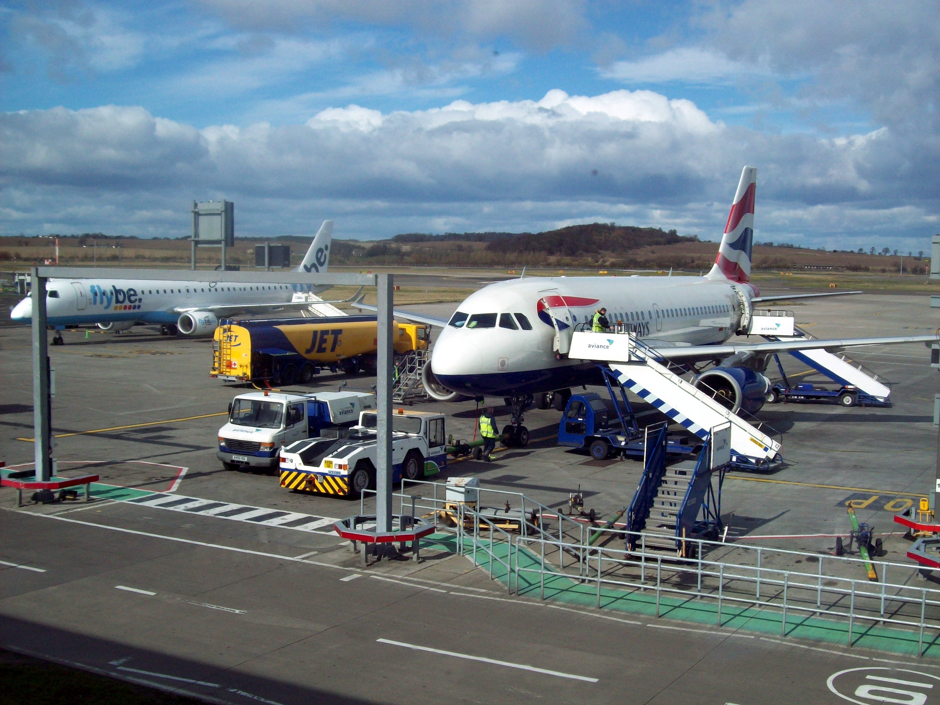 Aircraft stands at Edinburgh Airport showing a British Airways A319 and Flybe Embraer 195